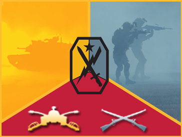 Flag of the Maneuver Center of Excellence